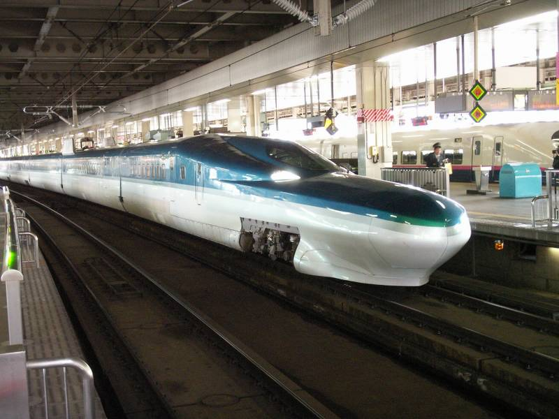 The JR East Class E954 "Fastech 360S" experimental shinkansen trainset at Sendai Station. This is the Car 8 (E954-8) end. The leading bogie covers are removed for testing purposes.